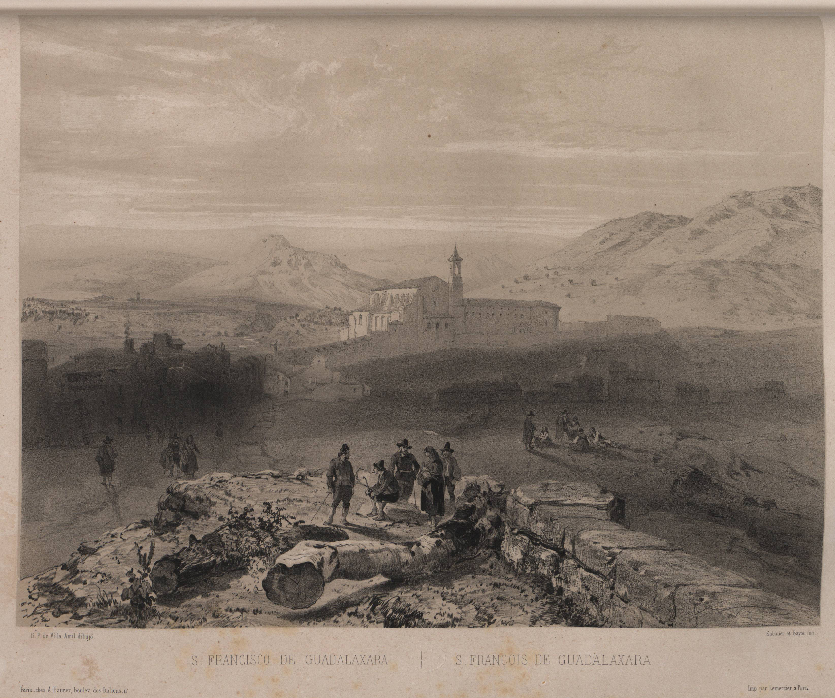 San Francisco of Guadalaxara, in España artística y monumental. Note: signed by Leon Jean-Baptiste Sabatier and Adolphe Bayot